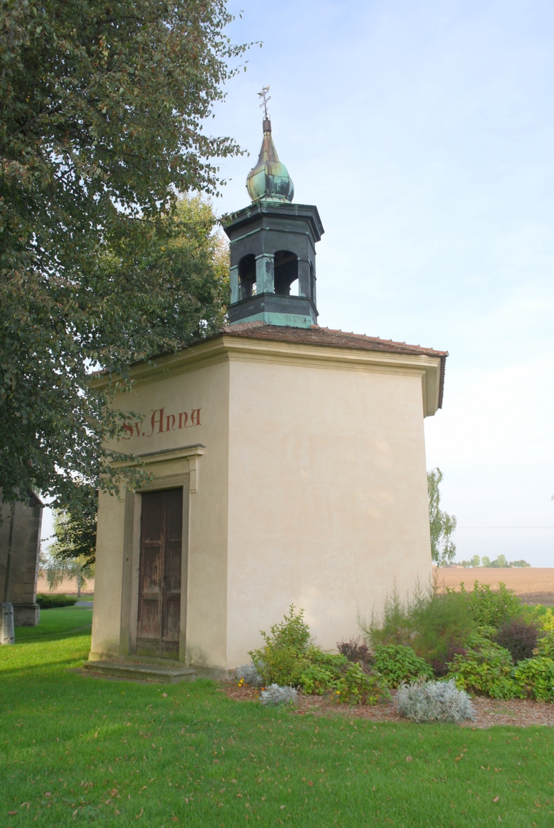 Church of the Assumption of Virgin Mary, Charvatce (Martiněves). Baroque chapel of St. Anne near the church.